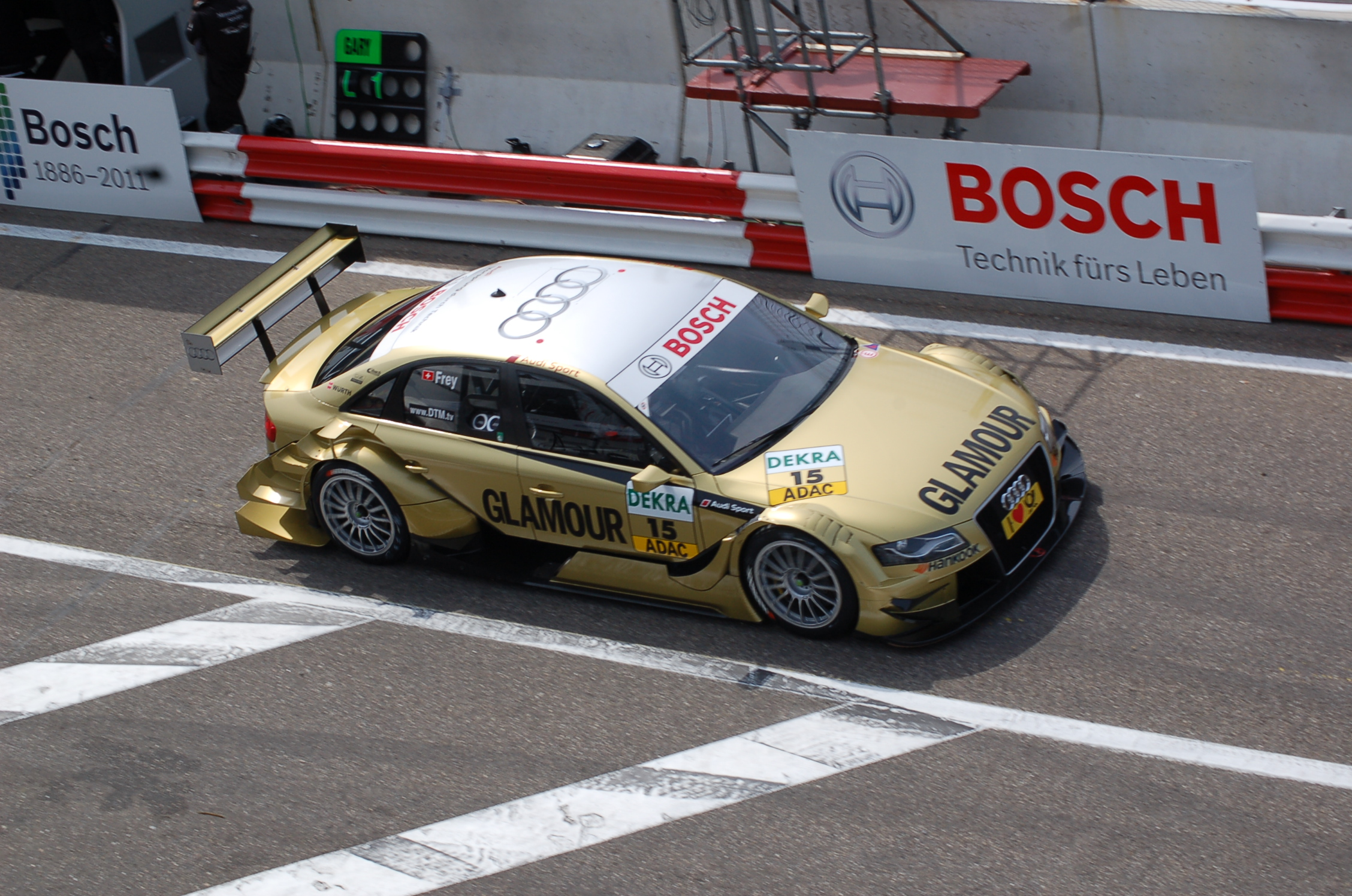 Rahel Frey's DTM Car 2011